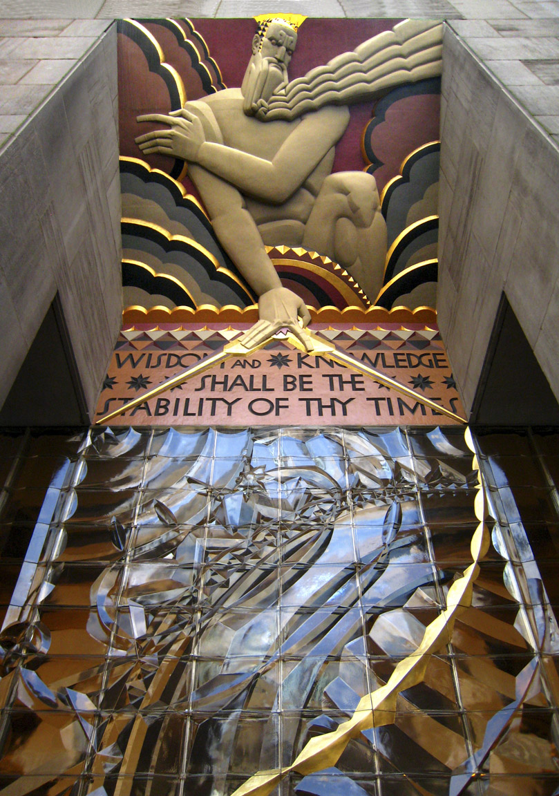 Portion of Wisdom, with Light and Sound, located above the entrance of 30 Rockefeller Center (GE Building), New York City